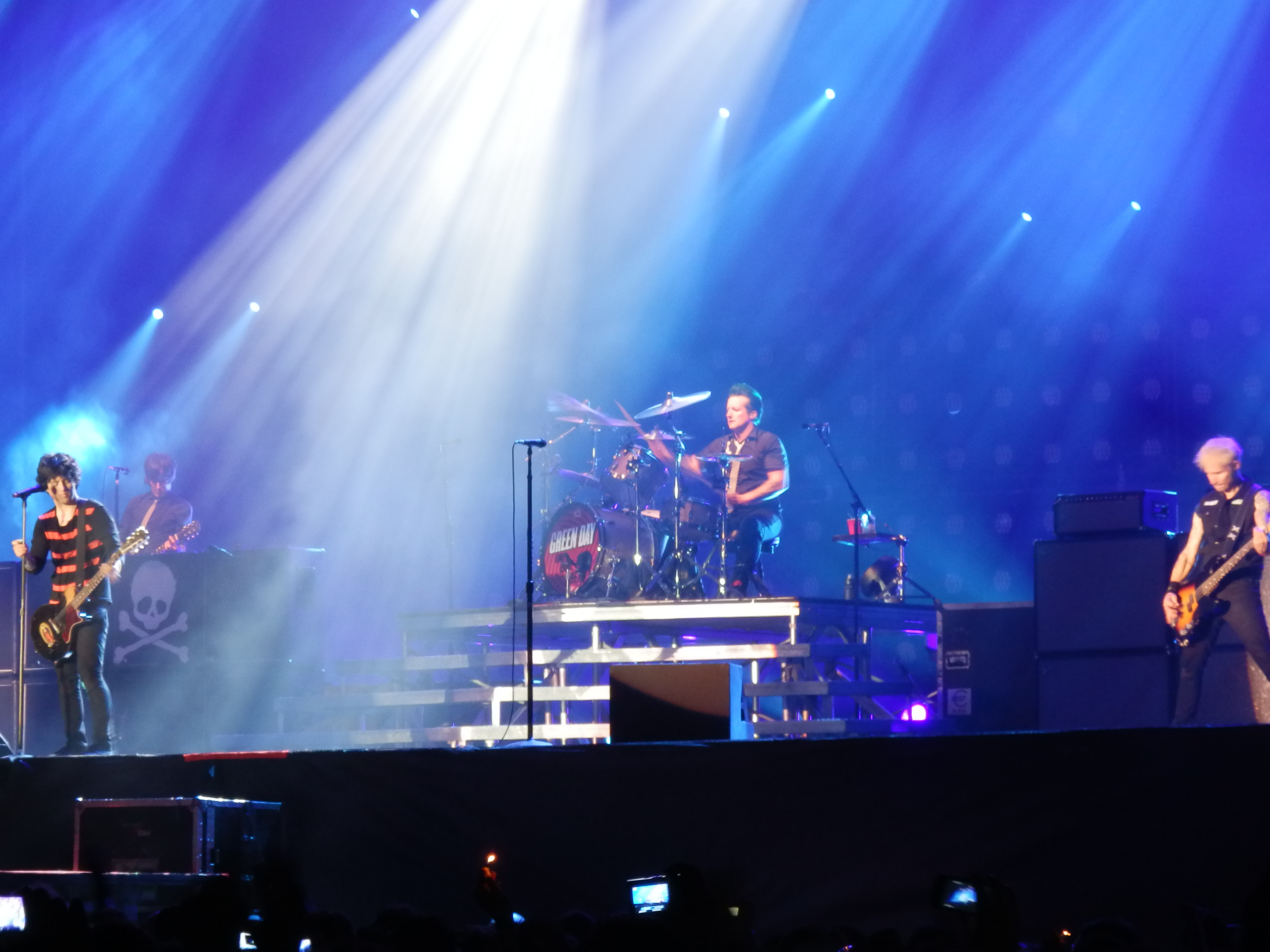 Green day Live 5 june 2013 in Rome